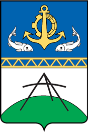 Kirillov (Vologda oblast), coat of arms (1971)